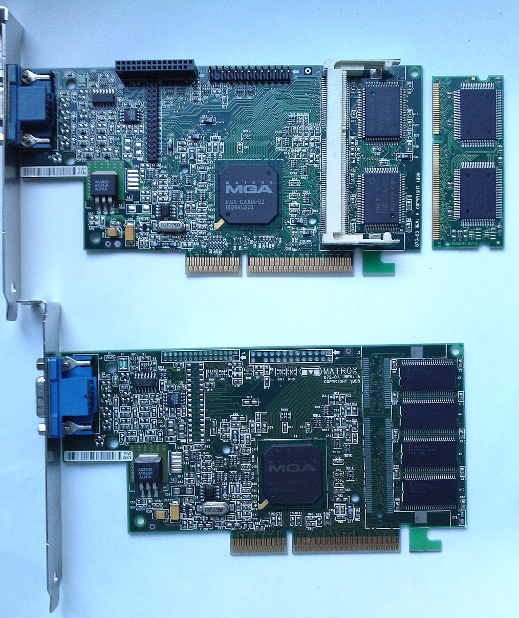 Matrox Millennium G250 8+8Мб и Matrox G250-LE 8Мб